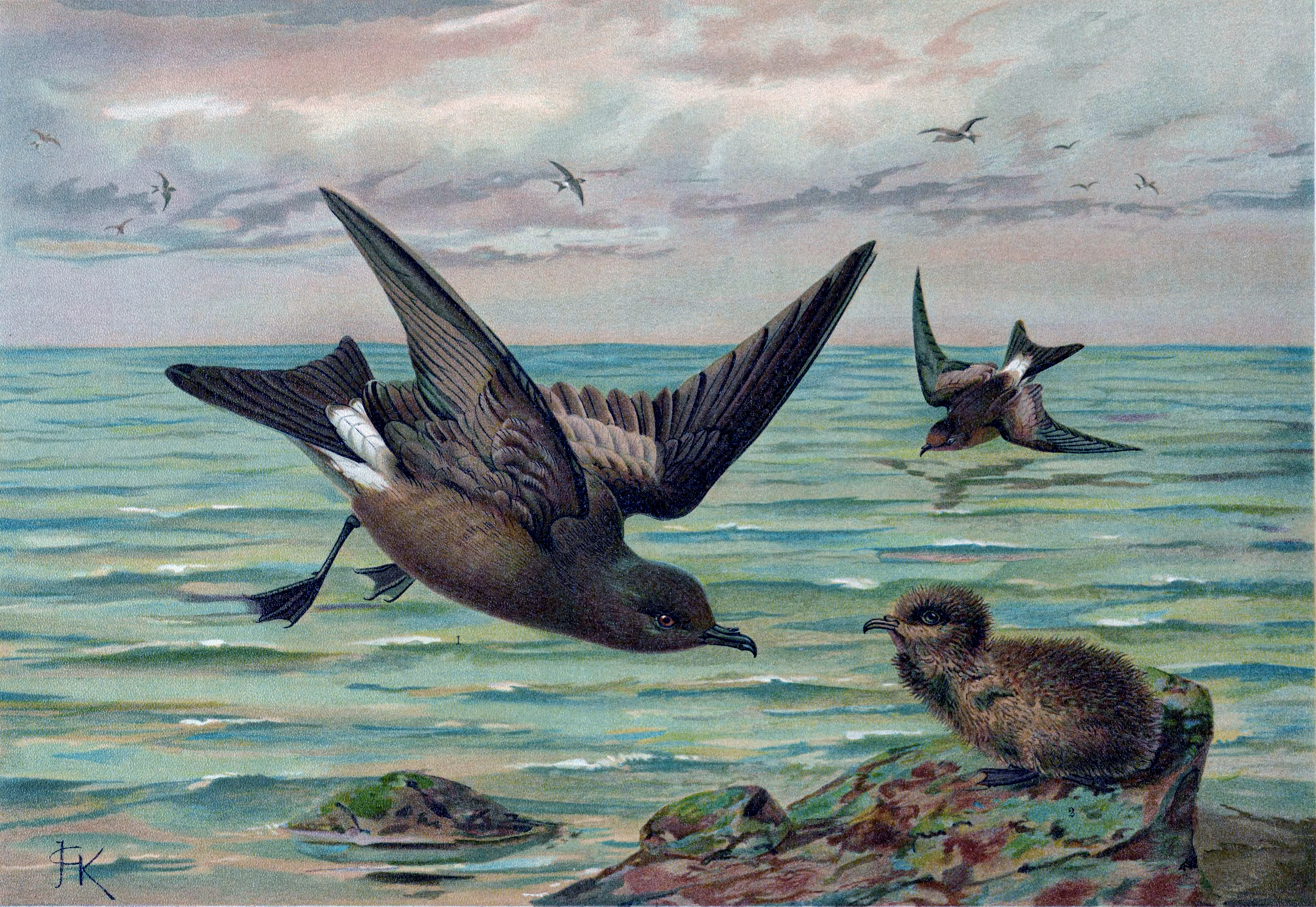 Leach's Storm-petrel